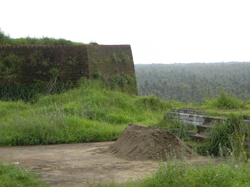 Part of old fort